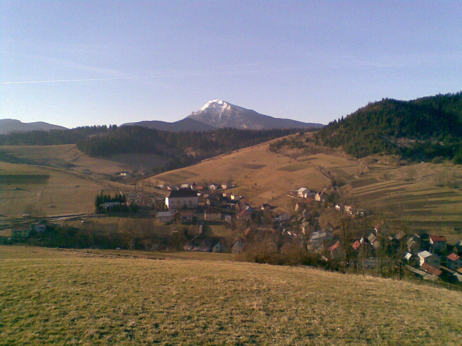 willage Pucov